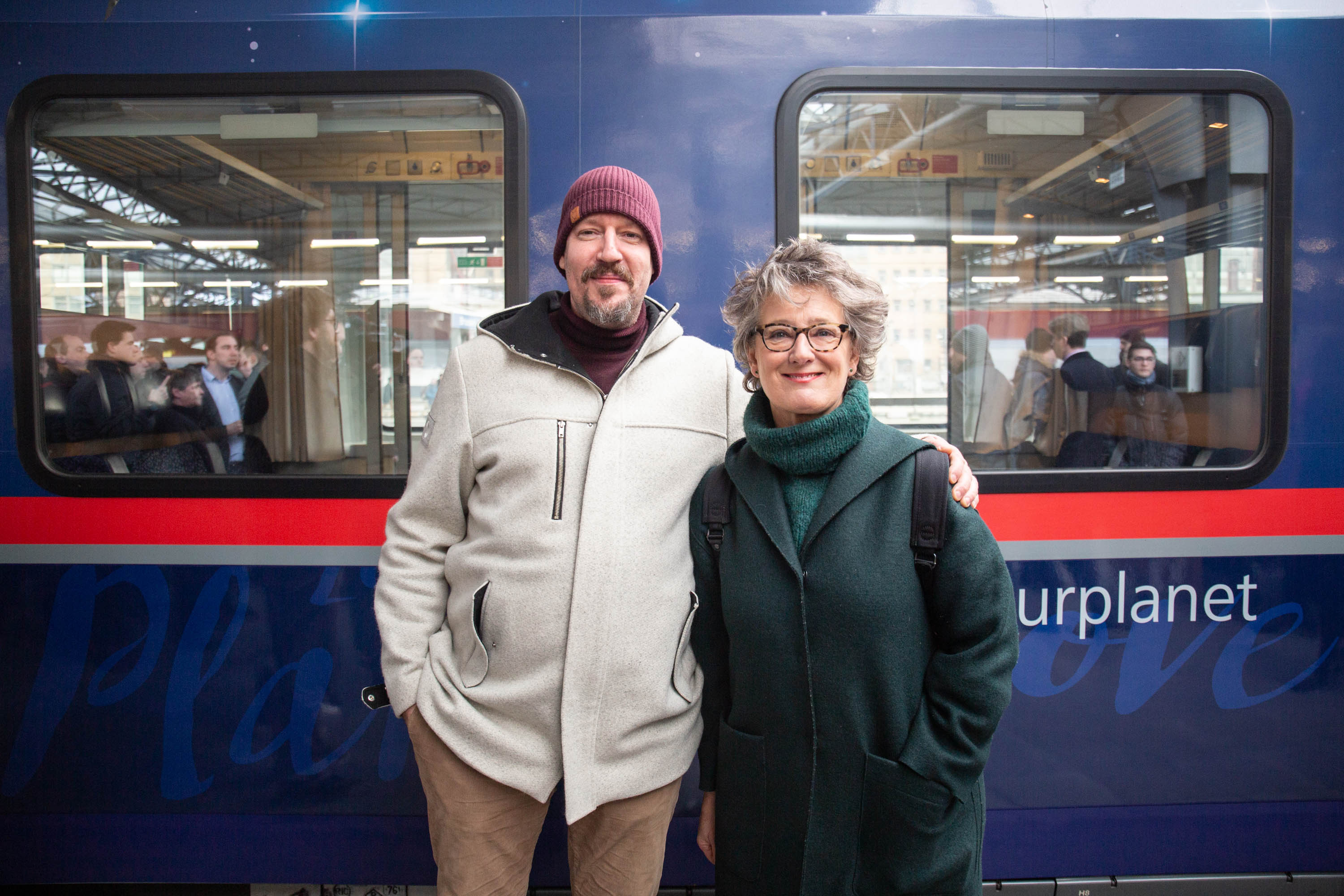 European Greens celebrating new night train between Vienna and Brussels